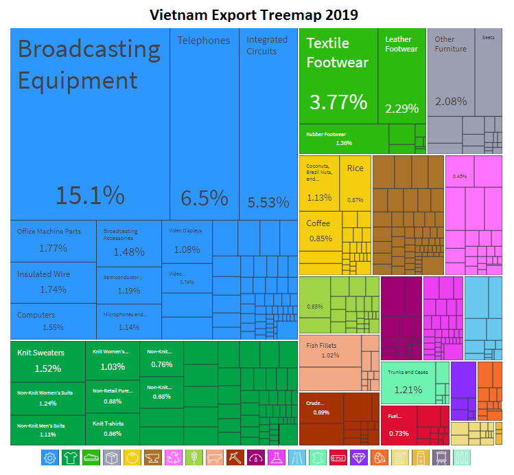 Viet Nam Export Treemap from MIT Harvard Economic Complexity Observatory